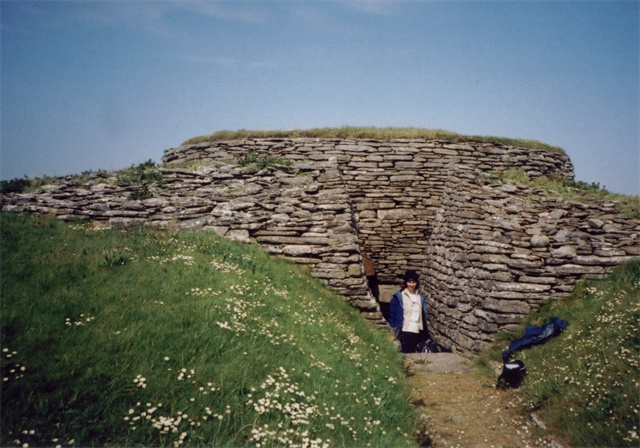 Quoyness Chambered Cairn. The Orkney Islands are well provided for in well preserved chambered cairns.